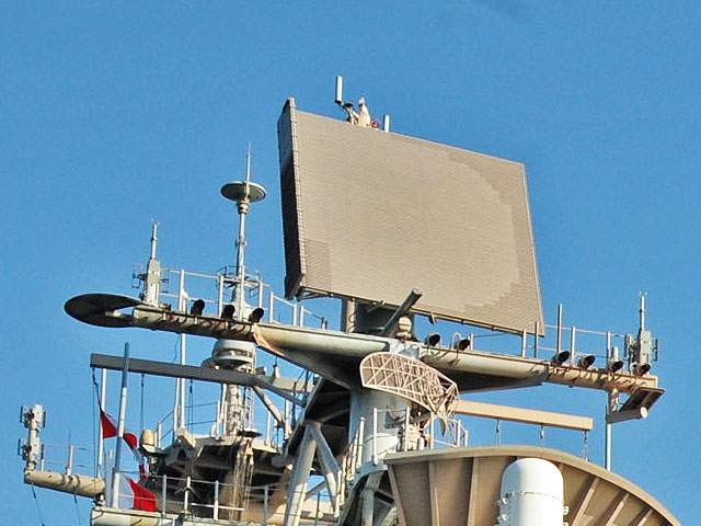 101118-N-5537T-011 NORFOLK (Nov. 18, 2010) Sailors man the rails as the multi-purpose amphibious assault ship USS Iwo Jima (LHD 7) returns to homeport at Naval Station Norfolk after completing a four-month Continuing Promise 2010 humanitarian civic assistance mission. The assigned medical and engineering staff embarked aboard Iwo Jima worked with partner nations to provide medical, dental, veterinary, and engineering assistance in eight countries. (U.S. Navy Photo by Mass Communication Specialist 1st Class (SW/AW) Mavis Tillman/Released)